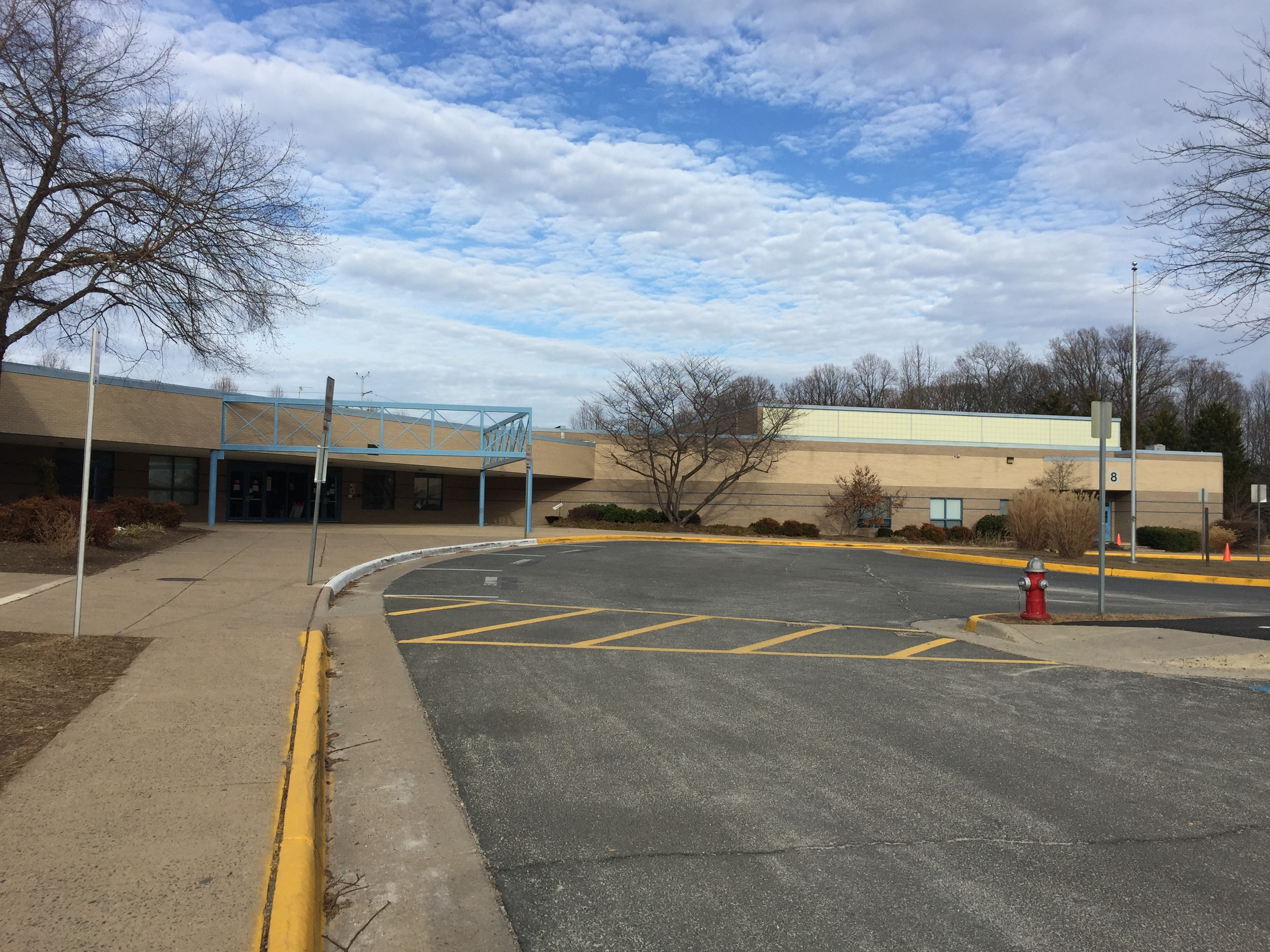 Front view of school